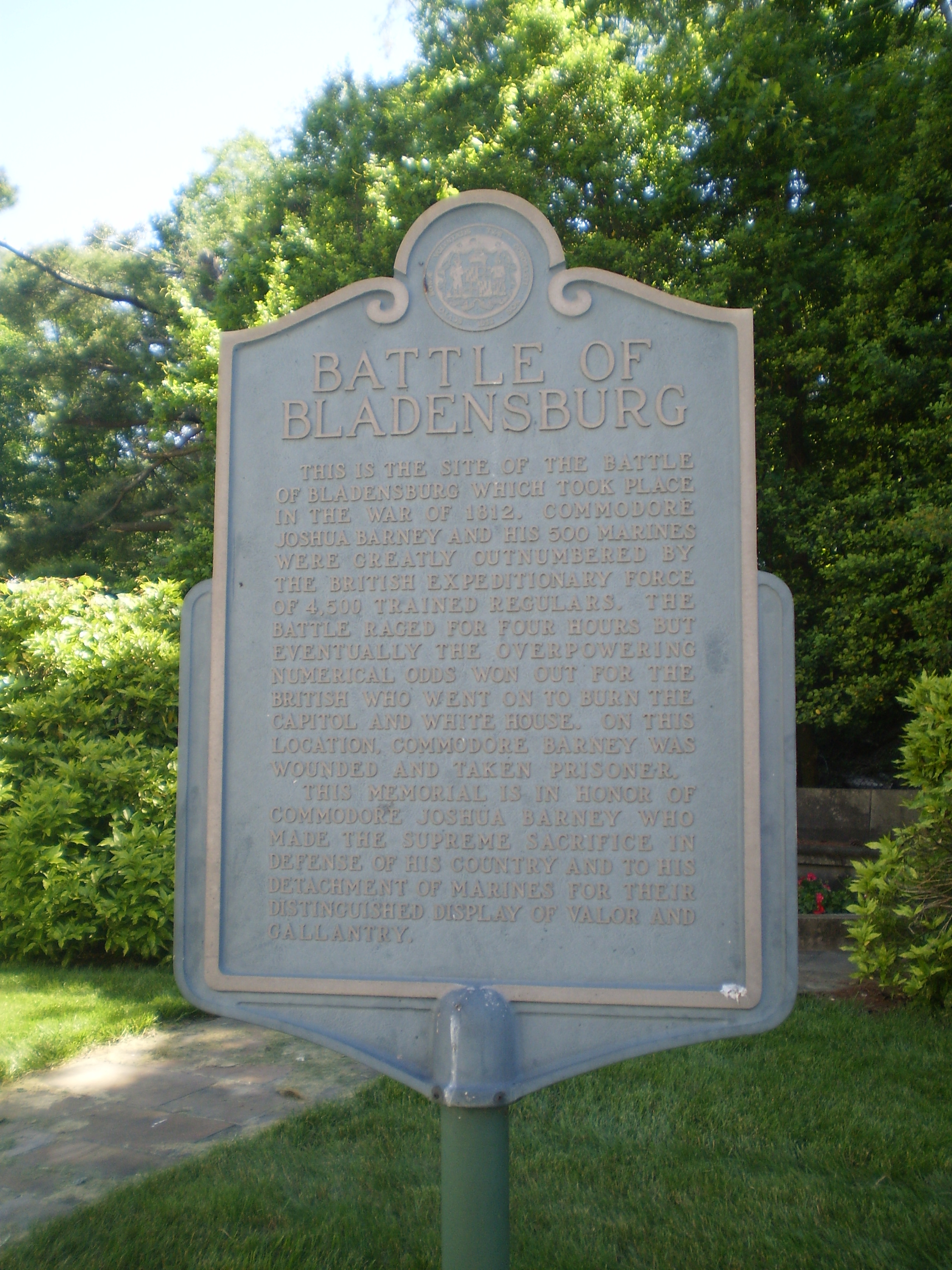 A sign for the Battle of Bladensburg at the Fort Lincoln Cemetery, Brentwood, Maryland.